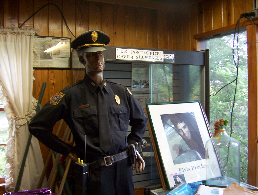 Oaklawn Garden in Germantown, Tennessee. Old Germantown police uniform in the indoor museum.